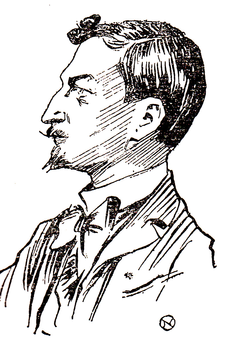 Drawing of the Romanian Symbolist poet and socialist militant Ștefan Petică. The author is identified by the enclosed-N monogram, bottom right.